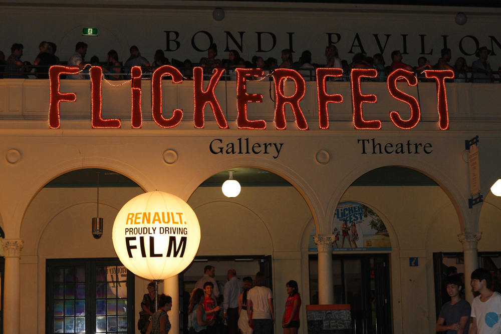 Flickerfest Short Film Festival opens at Bondi Pavilion, Bondi Beach, Sydney, Australia - 11th January 2013...